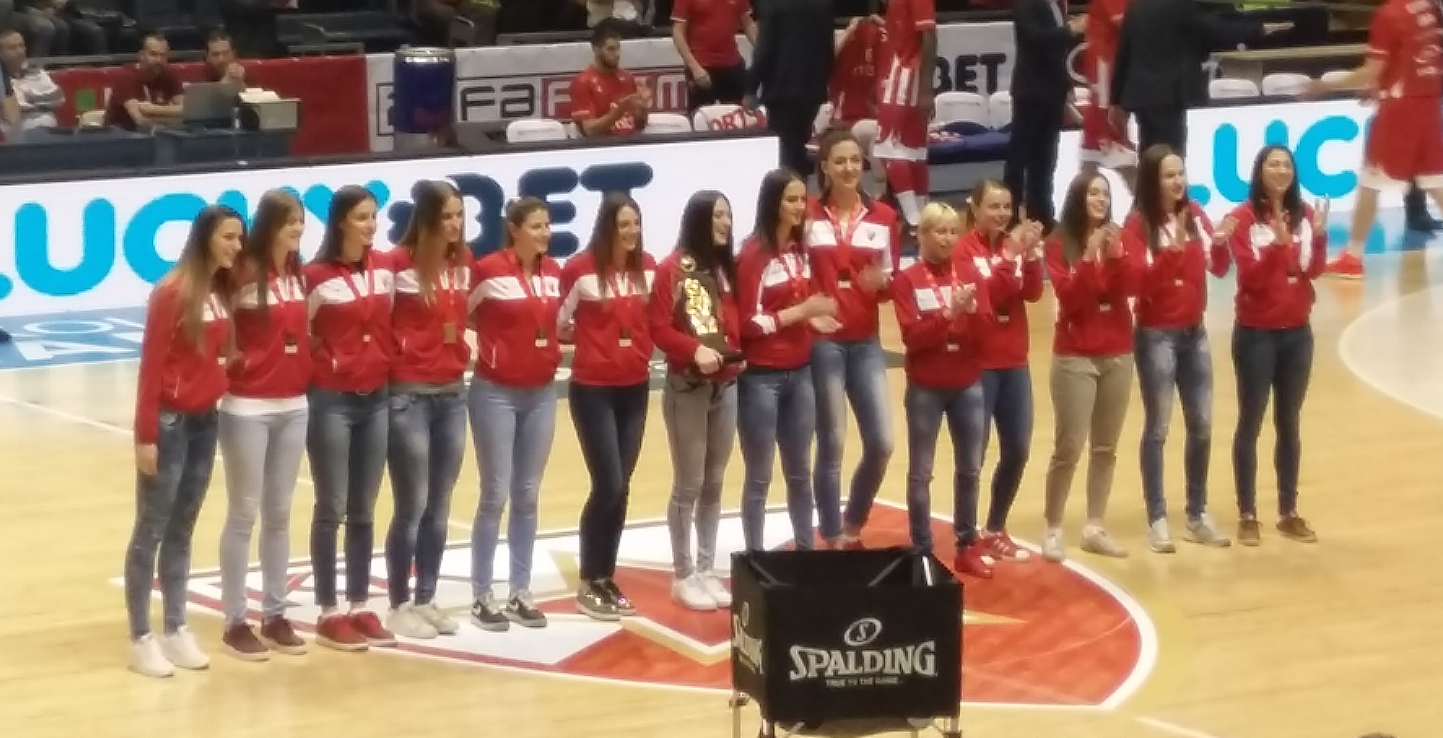 National cup winner